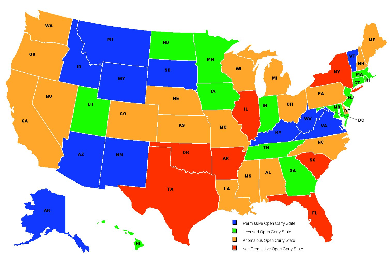 Map of USA states as regards their status for Concealed firearm carry